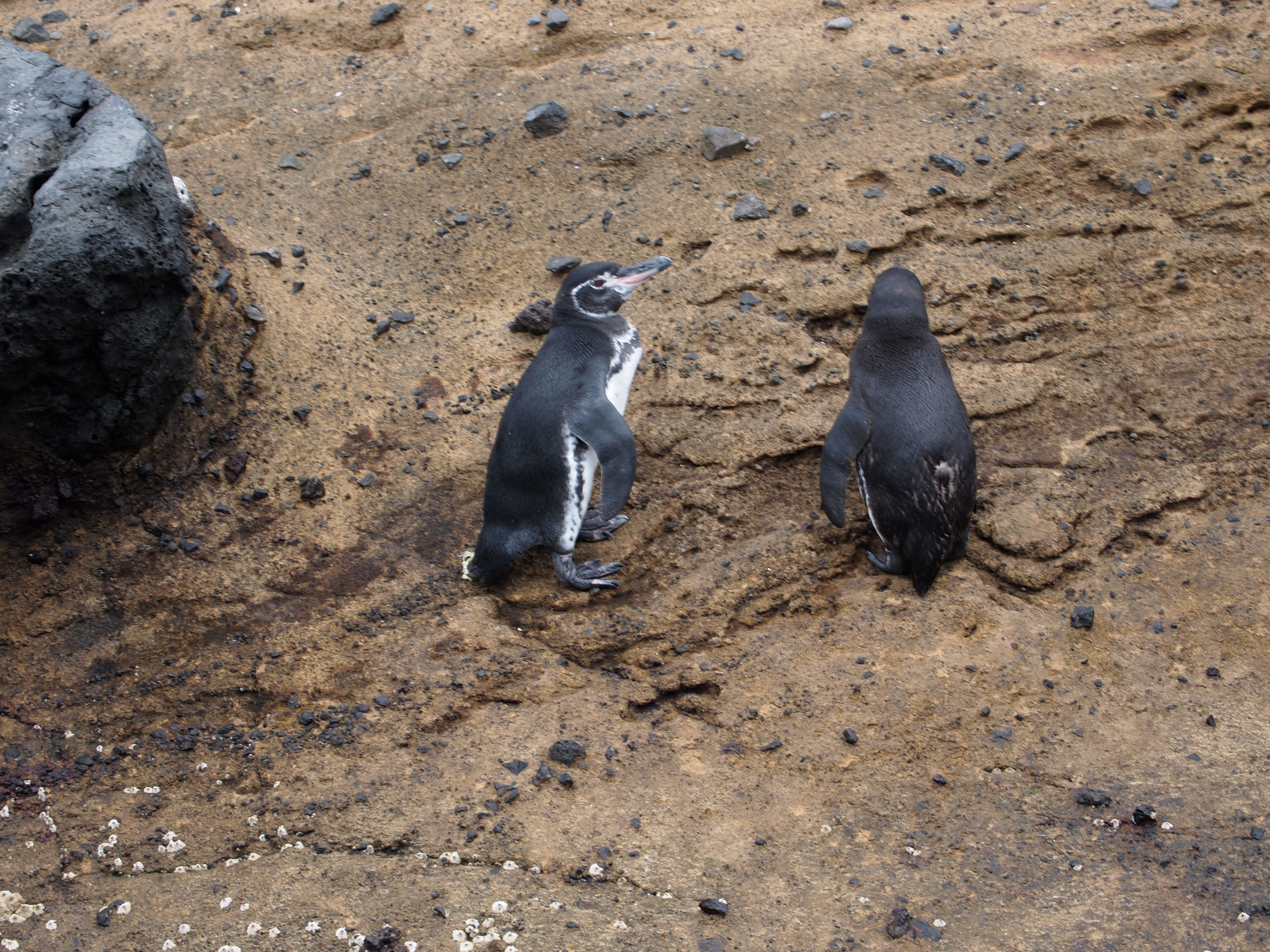 Galapagos Penguins walking in the Galapagos.